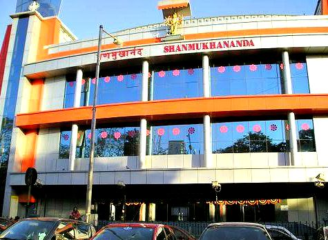 This Auditorium is at Mumbai